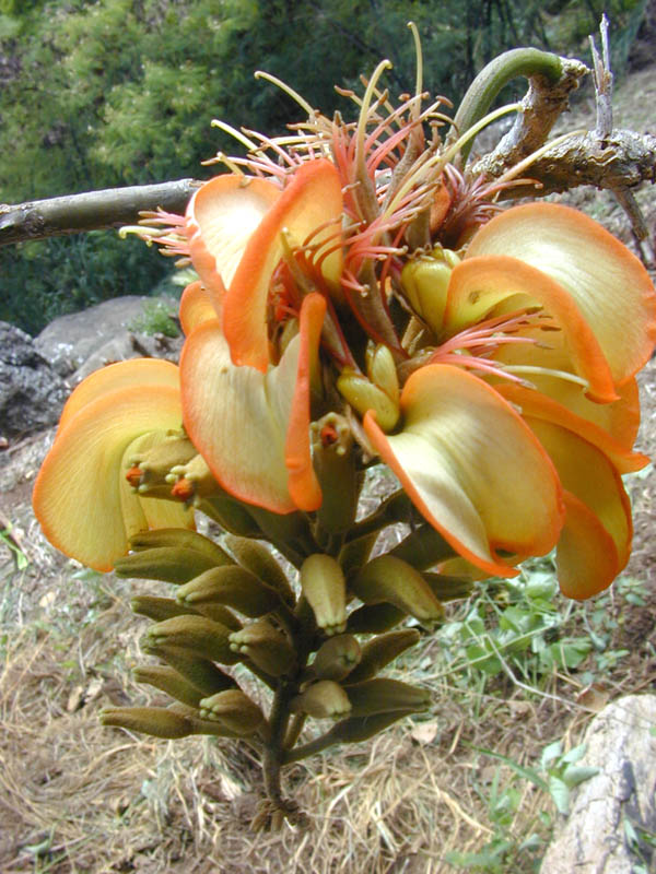 Inflorescence of Erythrina sandwicensis Degener – Hawaiian wiliwili tree photographed on O?ahu in the Hawaiian Islands by Eric Guinther. Category:Endemic flora of Hawaii